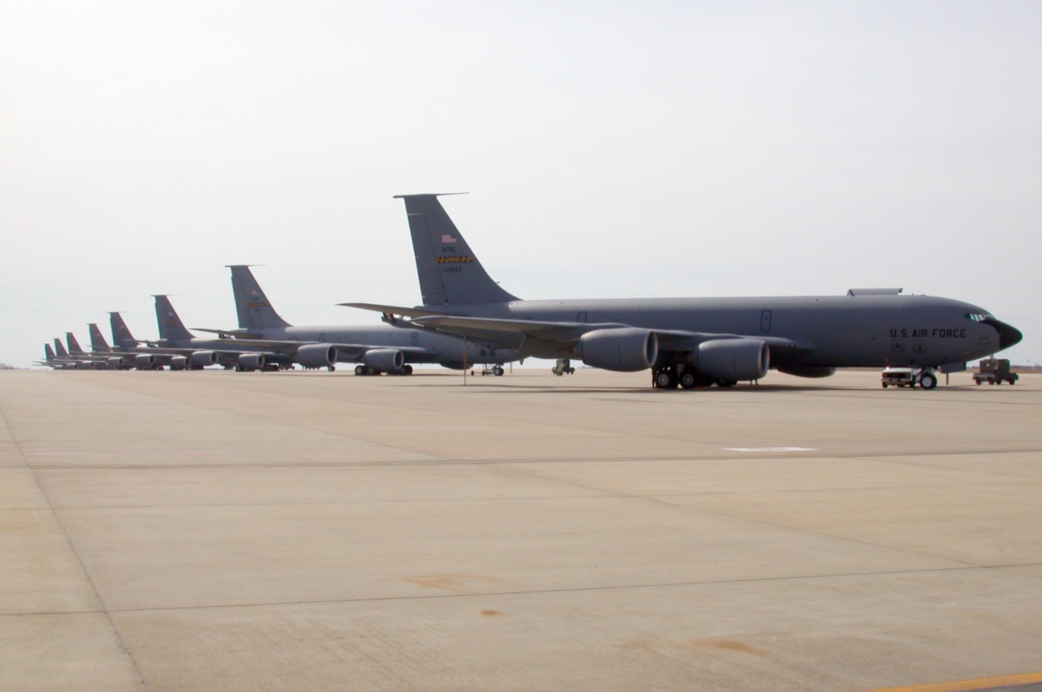 Eight U.S. Air Force Boeing KC-135R Stratotanker aircraft are on the flightline at the Air Force Reserve Command's 459th Air Refueling Wing at Andrews Air Force Base, Maryland (USA), awaiting their next mission on 29 February 2004.